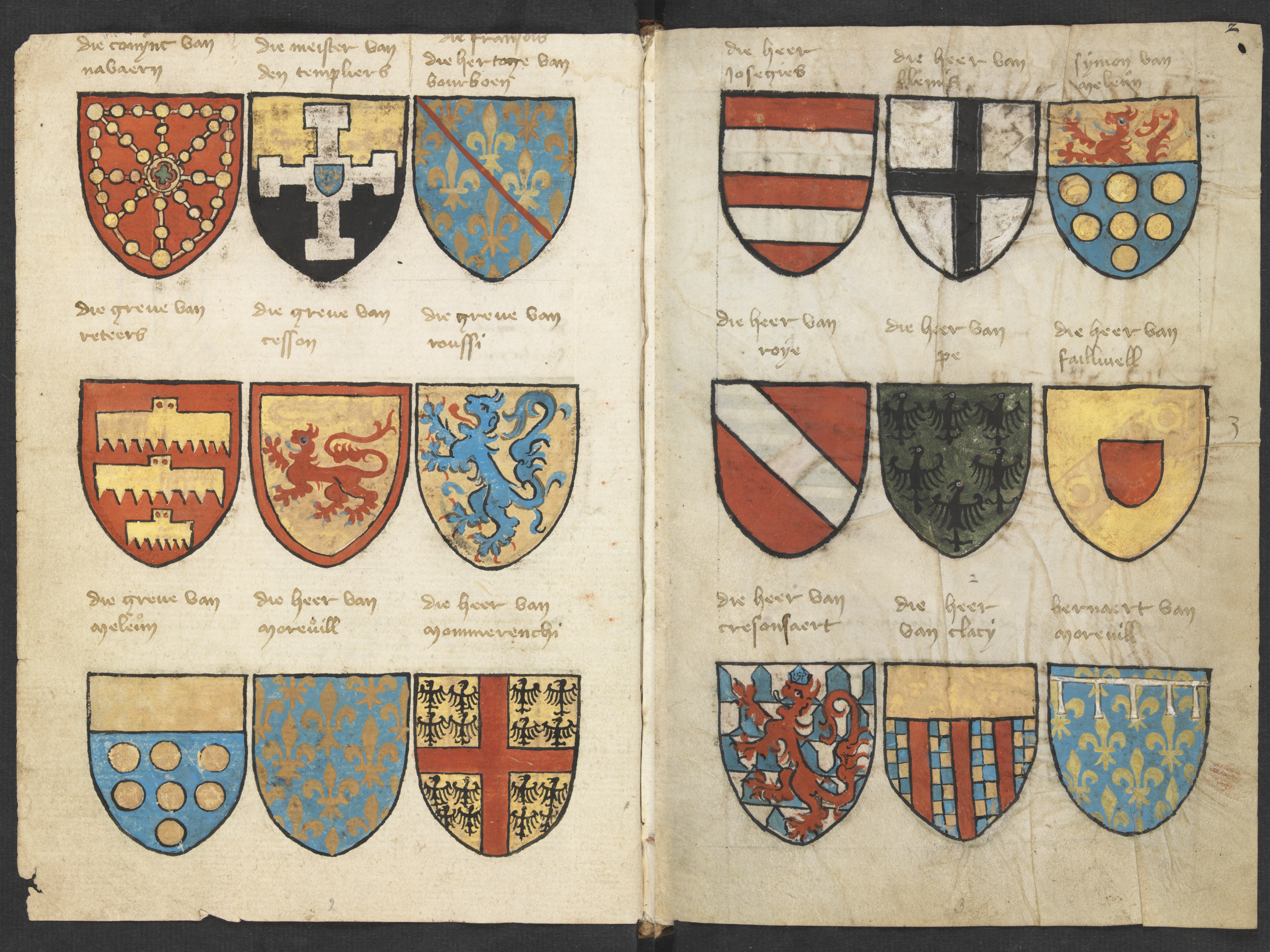 Lefthand side folio 001v; righthand side folio 002r from the Beyeren armorial / Wapenboek Beyeren. King of Navarre Grand Master of the Knights Templar Duke of Bourbon Josegies(?) Blemis(?) Simon de Melun Count of Rethel Count of Soissons Count of Roucy Roye Pe (Saint-Pé?) Failliuell(?) Count of Melun Moreuil Montmorency Cressonsacq Clacy Bernard de Moreuil